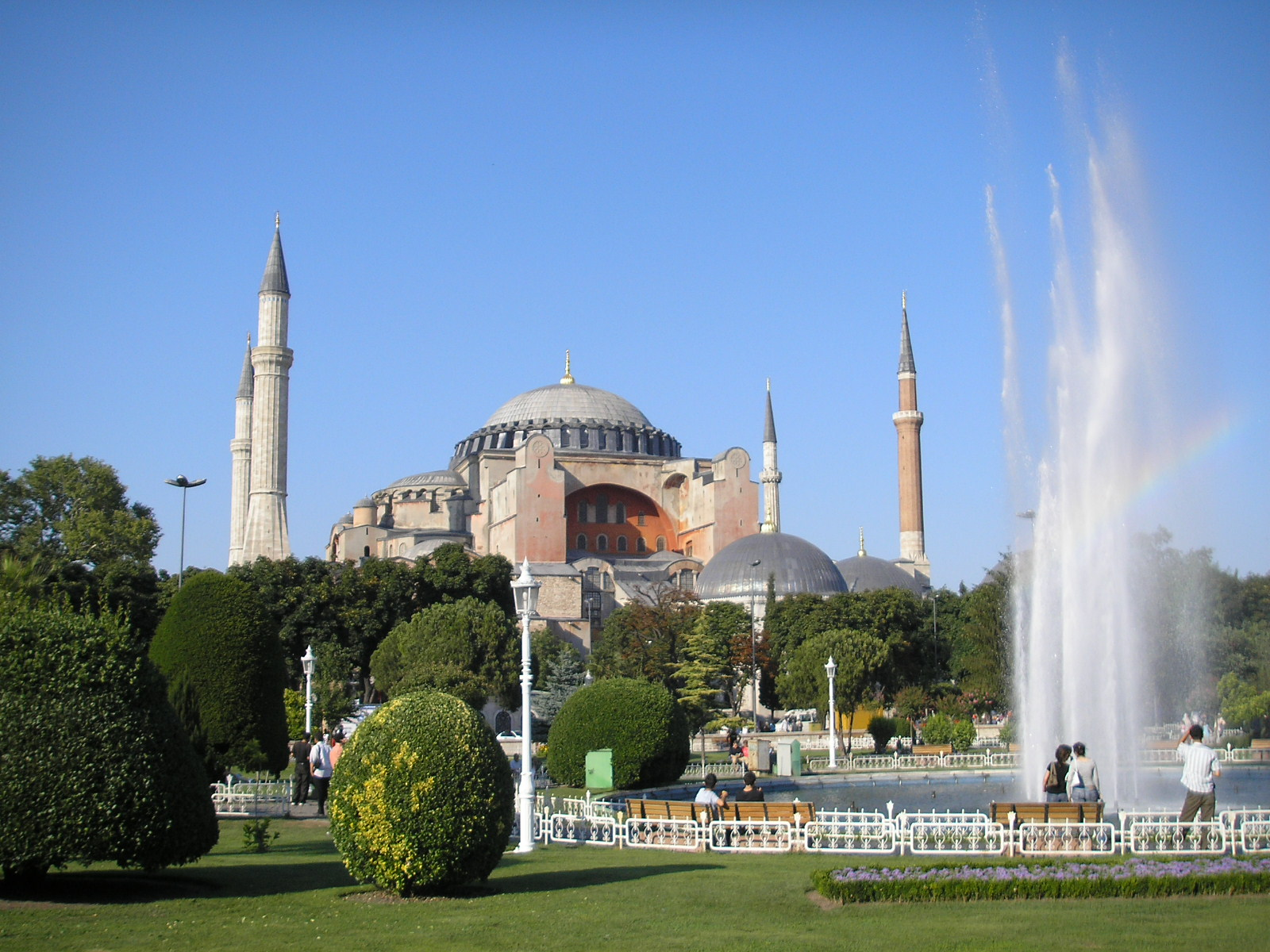 Exterior of the Hagia Sophia.